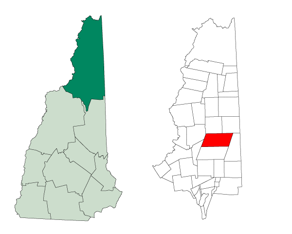 Map of a municipality in Coos County, New Hampshire